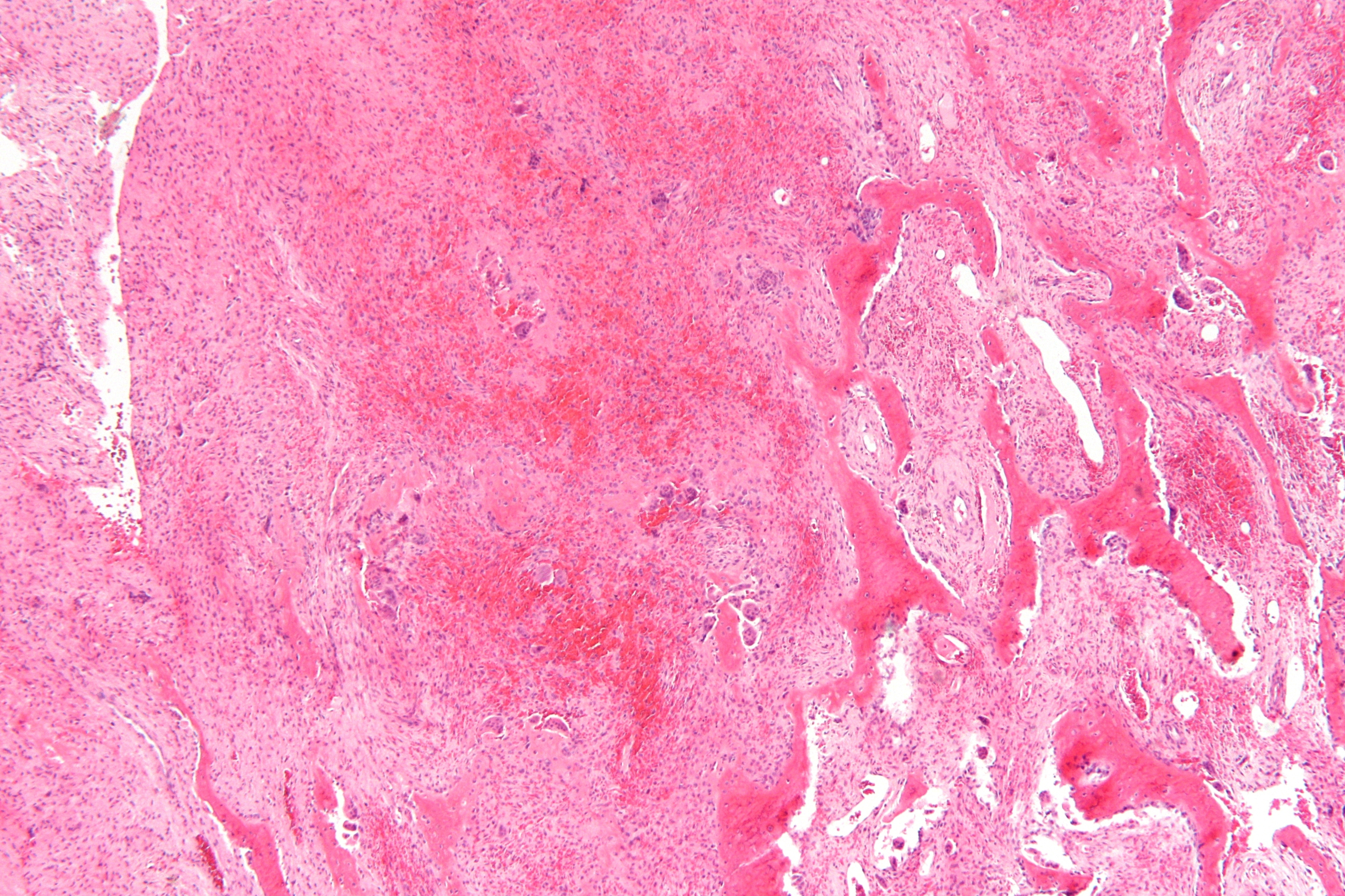 Low magnification micrograph of a brown tumour of bone, also brown tumor. H&E stain. Brown tumours are lesions that result from hypercalcemia. They are not true neoplasms.[1] Related images Low mag. Low mag. Intermed. mag. Intermed. mag. High mag. Very high mag. Low mag. Intermed. mag. High mag. Very high mag. High mag. Very high mag. References ↑ Meydan N, Barutca S, Guney E, et al. (June 2006). "Brown tumors mimicking bone metastases". J Natl Med Assoc 98 (6): 950–3. PMID 16775919. PMC: 2569361.